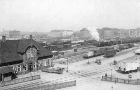 One of the two station bildings of the first Nørrebro station that opened in 1886. Station A at Stefansgade served the northbound trains while Station B at Lyngbygade (now Hillerødgade) served the southbound trains.